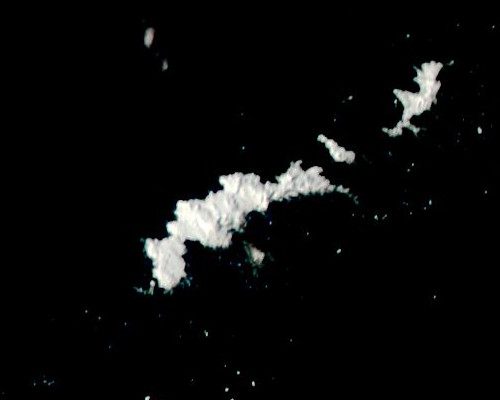 South Orkney Islands in summer